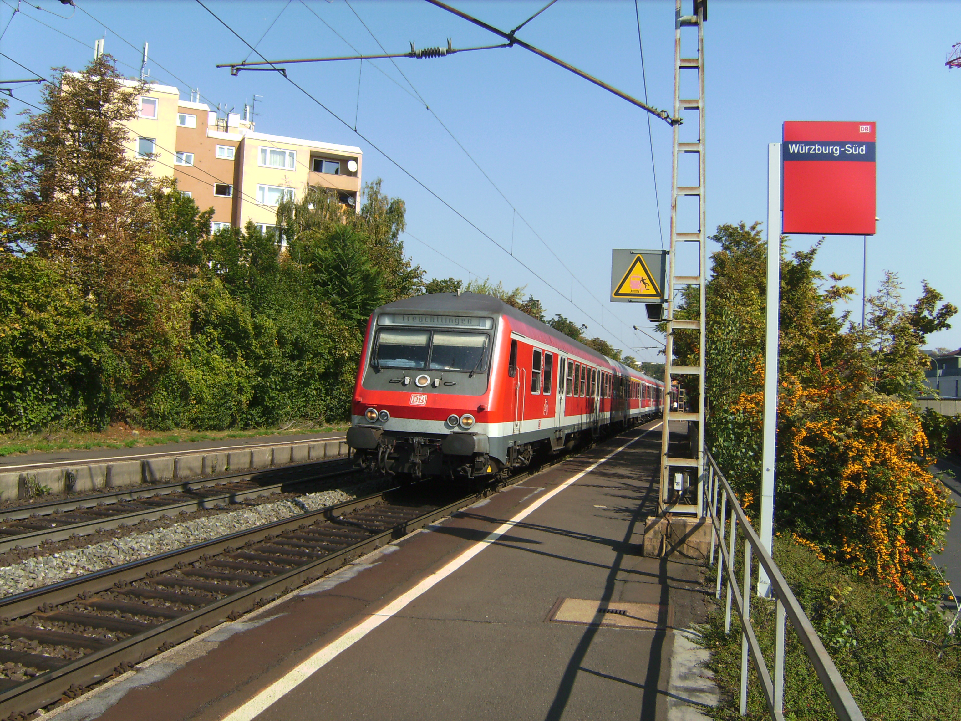 A regional train from Treuchtlingen to Würzburg stops at Würzburg-Süd